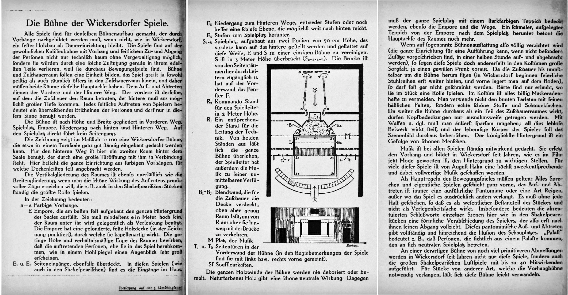 The theater of Freie Schulgemeinde (= Free School Community) in Wickersdorf near Saalfeld in the Thuringian Forest explained by using the example of the stage play Brunhilde auf Island by Martin Luserke (1880–1968).